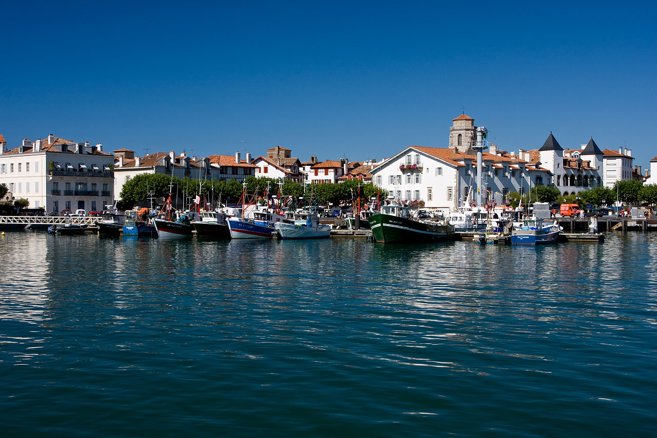 Saint-Jean-de-Luz is a fishing port on the Basque coast of France and now a famous resort.